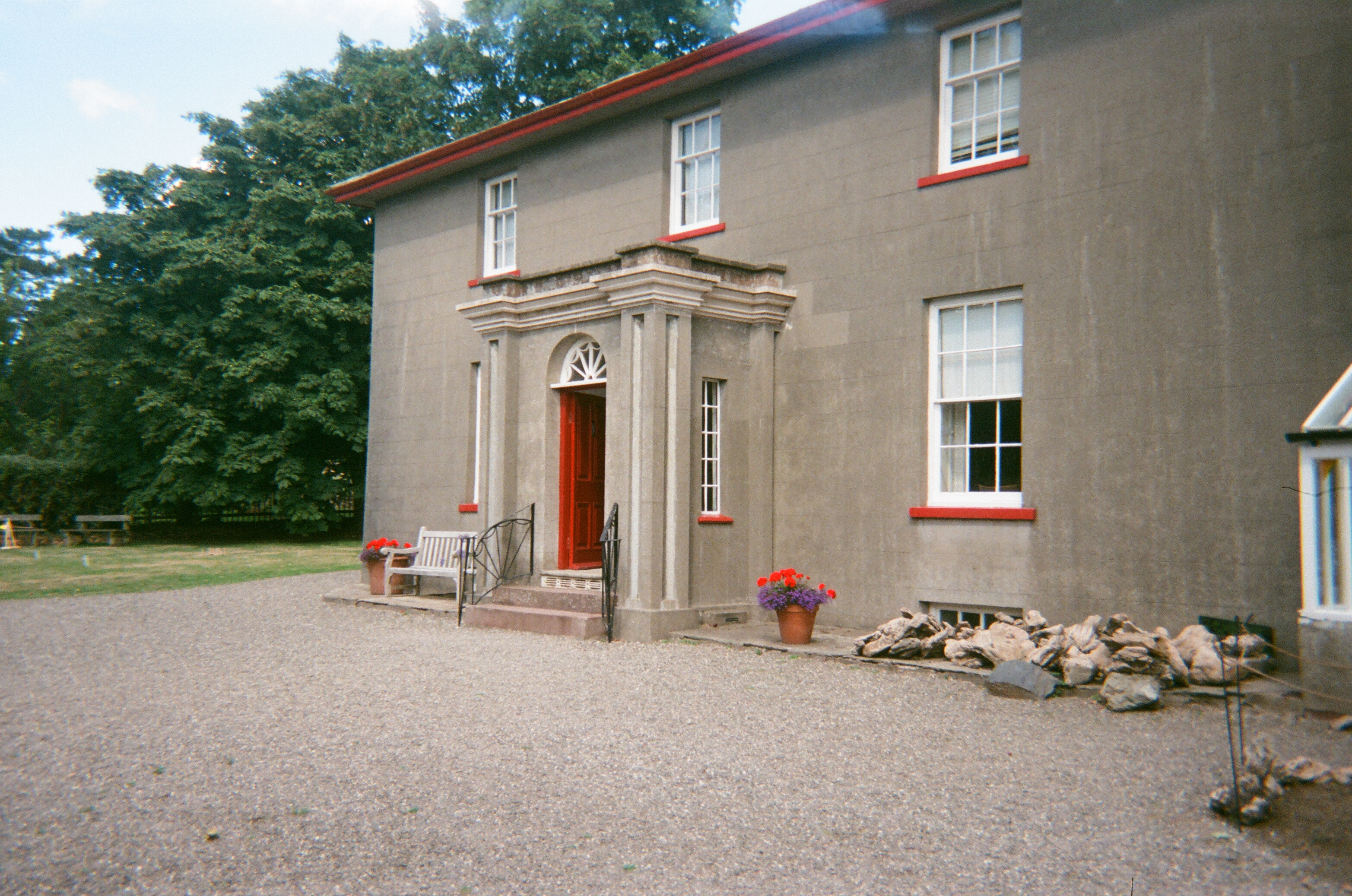 Entrance to the Grove Museum in Ramsey, Isle of Man